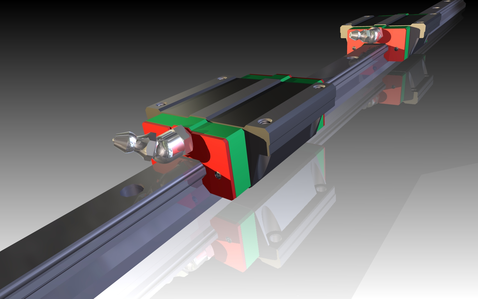 High resolution rendering of Linear Bearing Guide way make Hiwin, designed in Autodesk Inventor